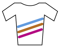 This is the leaders jersey of the UCI Womens World Tour.